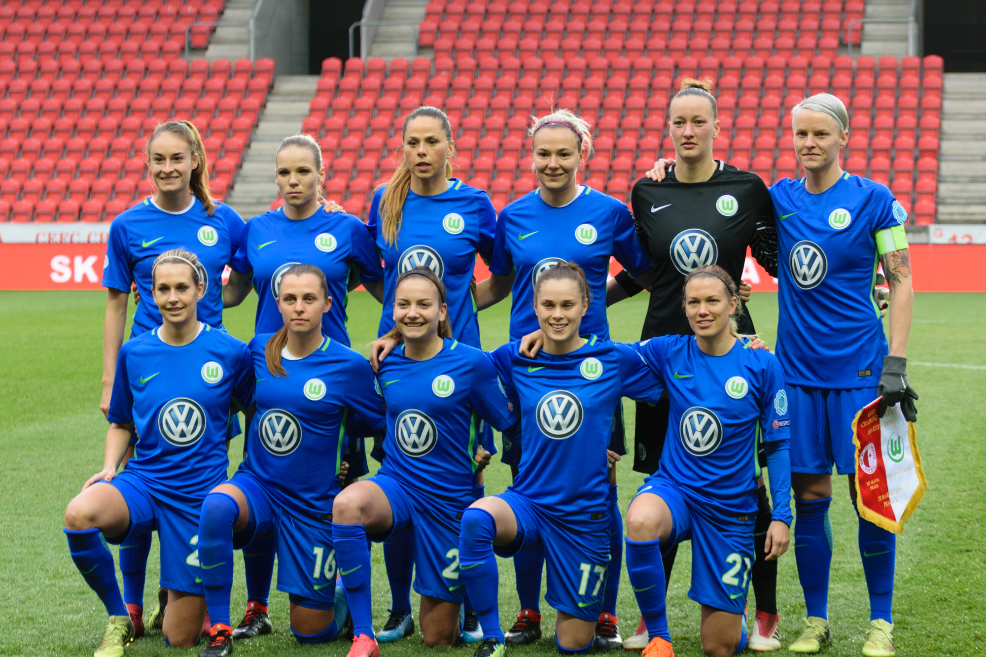 VfL Wolsburg Women's posing before Slavia Prague vs VfL Wolfsburg